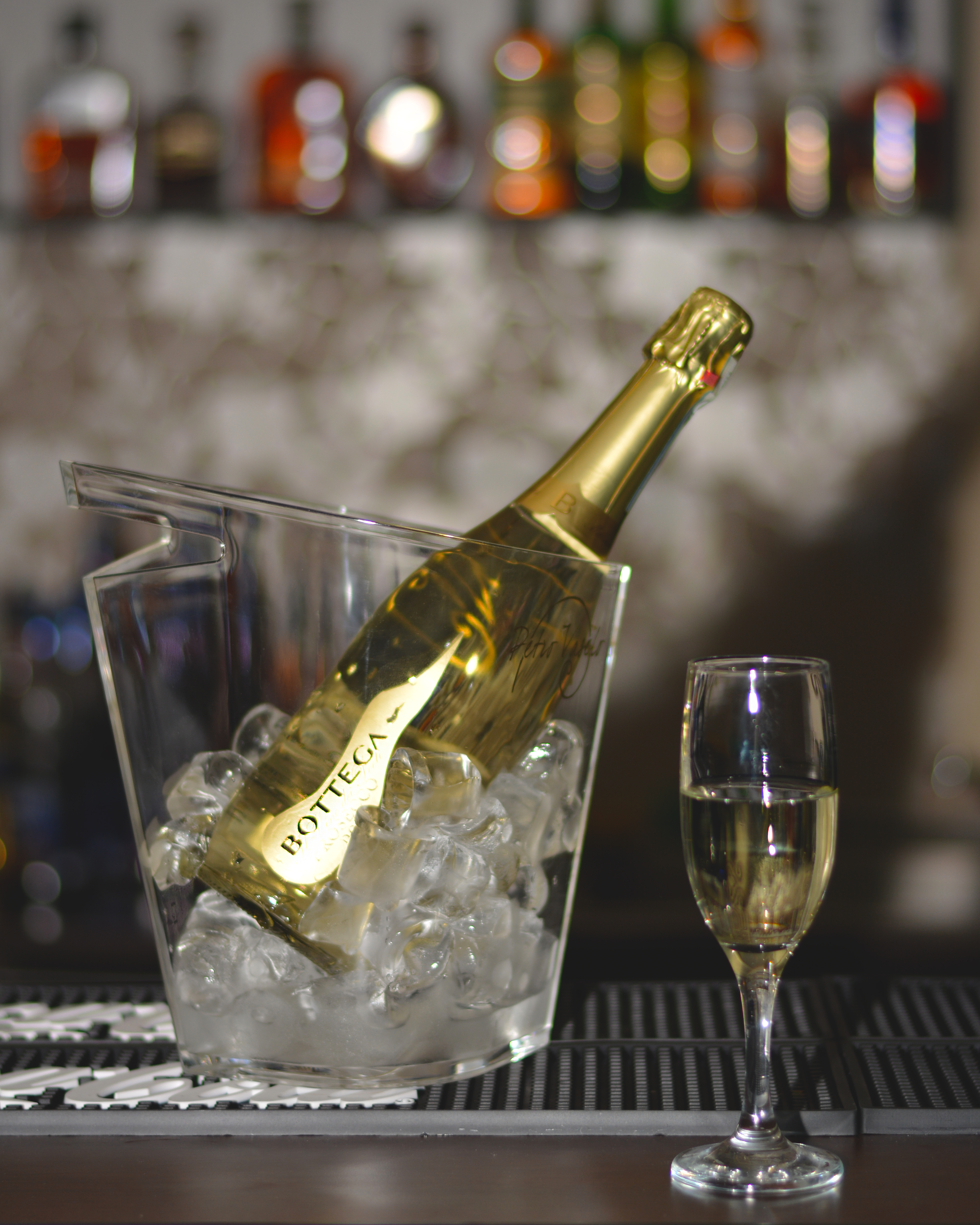 A bottle of Prosecco